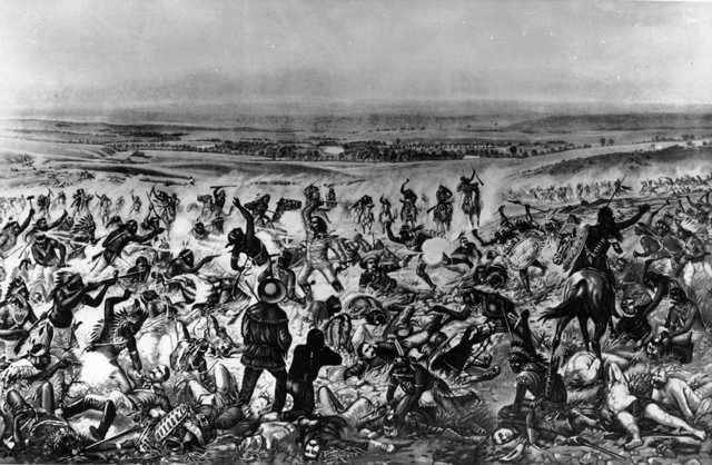 Title: Custer's last stand Caption: Native American Lakota Sioux, Crow, Northern, and Cheyenne, defeat General Custer standing center, wearing buckskin, with few of his soldiers of the Seventh Cavalry still standing, Little Bighorn Battlefield, June 26, 1876 Little Bighorn River, Montana. Template:Denver Public Library public domain images